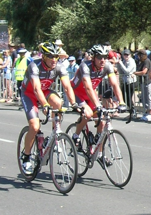 Lance Armstrong and Yaroslav Popovych at the 2010 Cancer Council Helpline Classic, before the 2010 Tour Down Under.